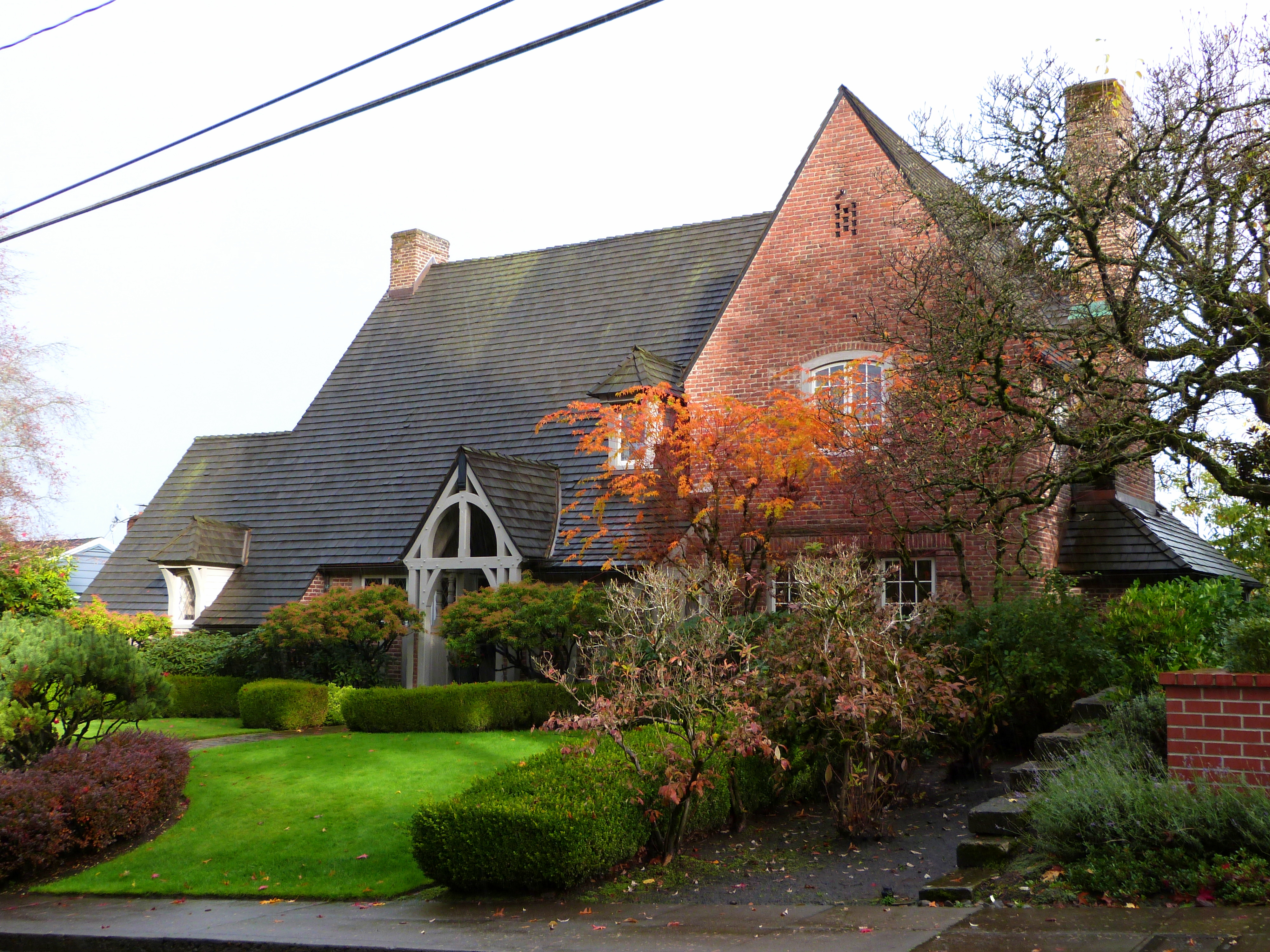 The historic Paul F. Murphy House (built 1934), located at 850 Northwest Powhatan Terrace in Portland, Oregon, United States, is listed on the US National Register of Historic Places.